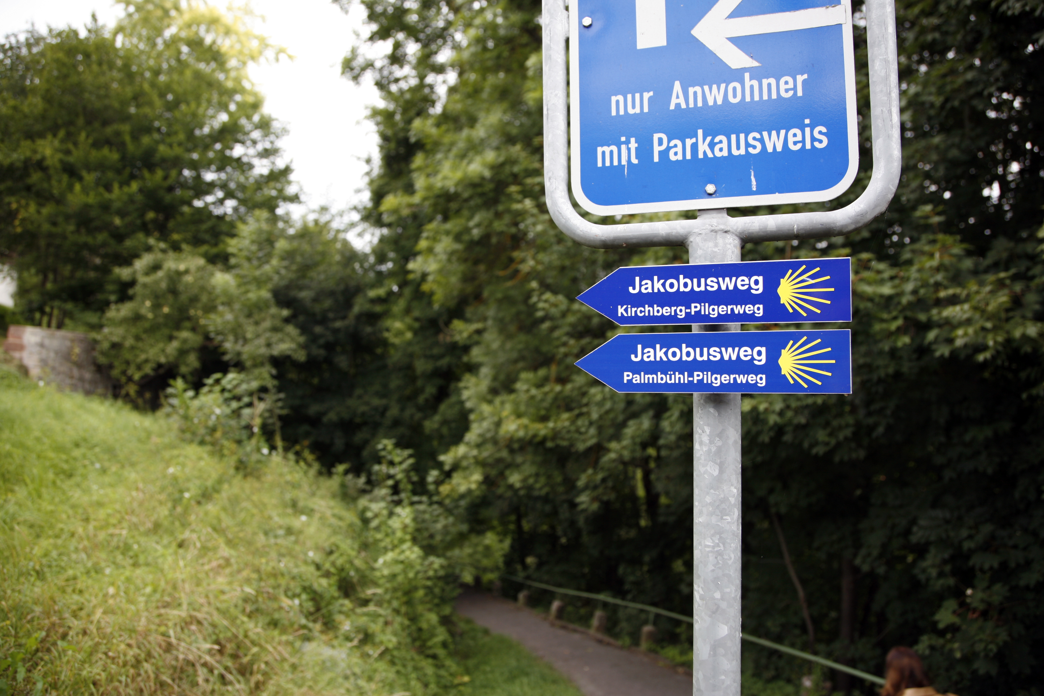 Trail Label of St. James Way in Rottweil (Baden-Württemberg, Germany)